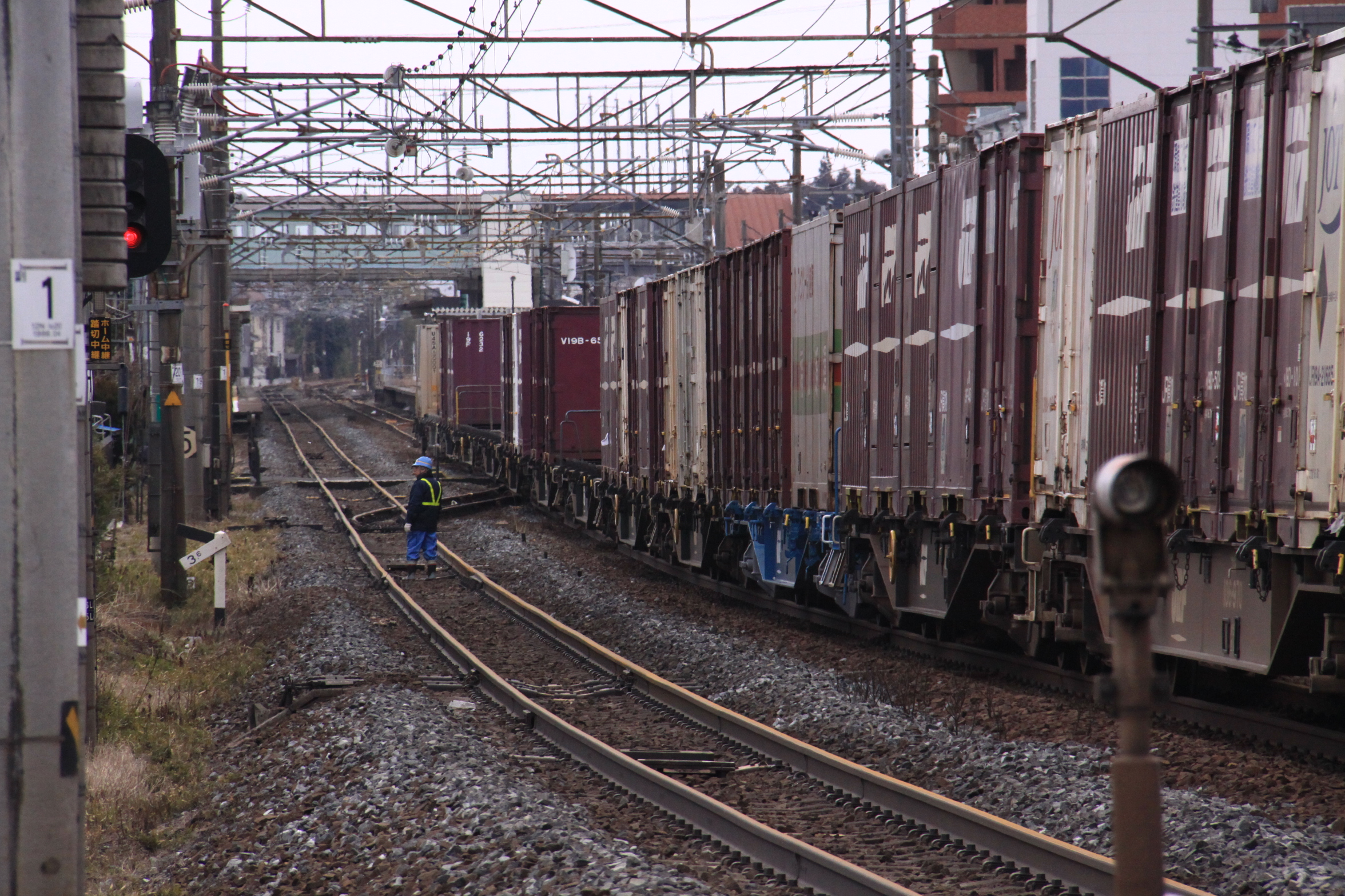 Freight train is stopped by power failure due to earthquake on Touhoku Main Line in Sendai, Miyagi.